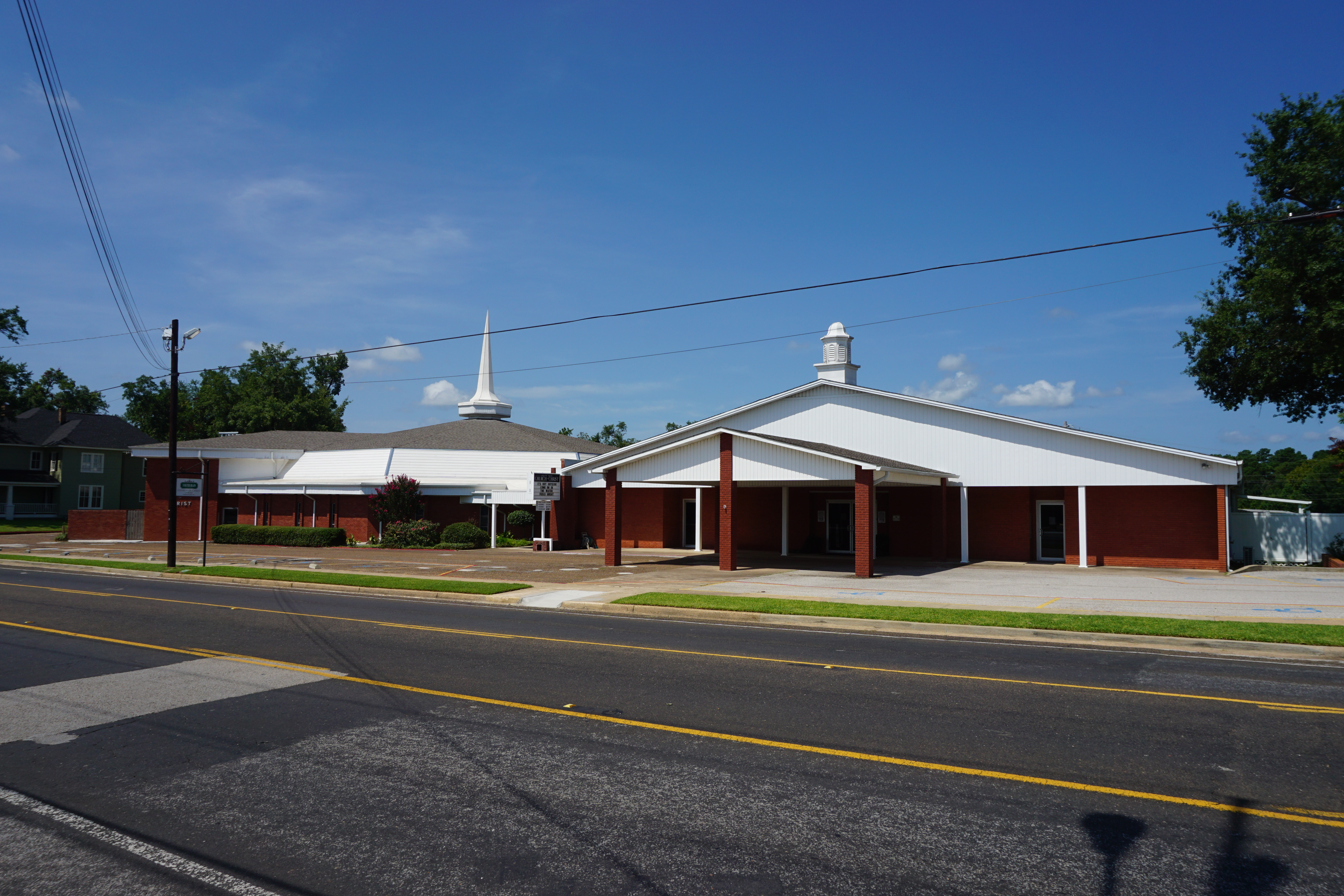 South Main Church of Christ in Henderson, Texas (United States).